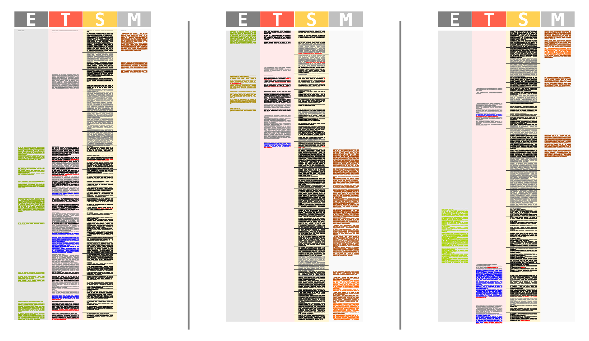 E: External sources, T: Zsolt Semjén's 1991 theology laureatus dissertation ("The challenge of New Age and opportunity for evangelization"), S: Zsolt Semjén's 1992 sociology diploma thesis, ("An attempted interpretation of New Age") 2nd, revised edition, M: two publications by Attila Molnár (1993, 1992/1999) External Sources: ██ Stefan Üblackner: Der Traum vom "New Age". Stadt Gottes (1989) January, February, March ██ Helmuth von Glasenapp: Die fünf großen Religionen (Translated to Hungarian with the title "Az öt világvallás". Budapest, Gondolat, 1975) ██ Lewis Spence: The Encyclopedia of the Occult. London, Bracken Books, 1988 ██ Lothar Gassmann: New age - kommt die Welteinheitsreligion?, 1987 ██ Verbatim quotations, referenced correctly. Publications by Attila Molnár: ██ Molnár Attila: Az új vallási jelenségek, In: Valóság, 1993. 5. szám. ██ Molnár Attila Károly: A vallás és politika napjainkban. 1992. In: Feljegyzések a Kaotikus Fegyházból. Budapest, Kairosz, 1999. Based on